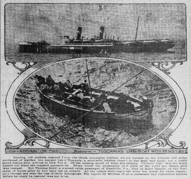 Greek Steamship Athinai, on fire before she sank on September 19, 1915.